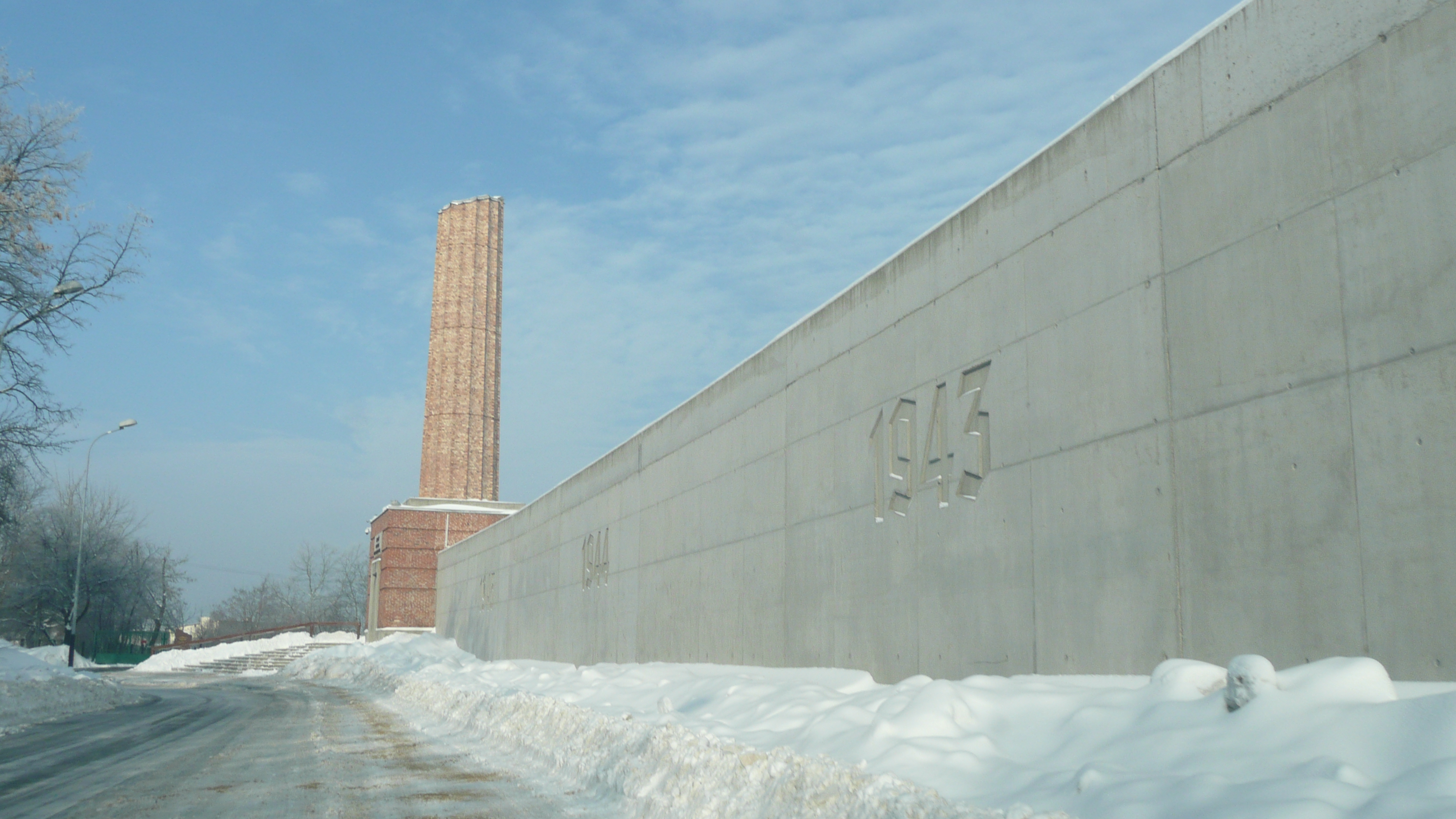 Łódź - Radegast Station